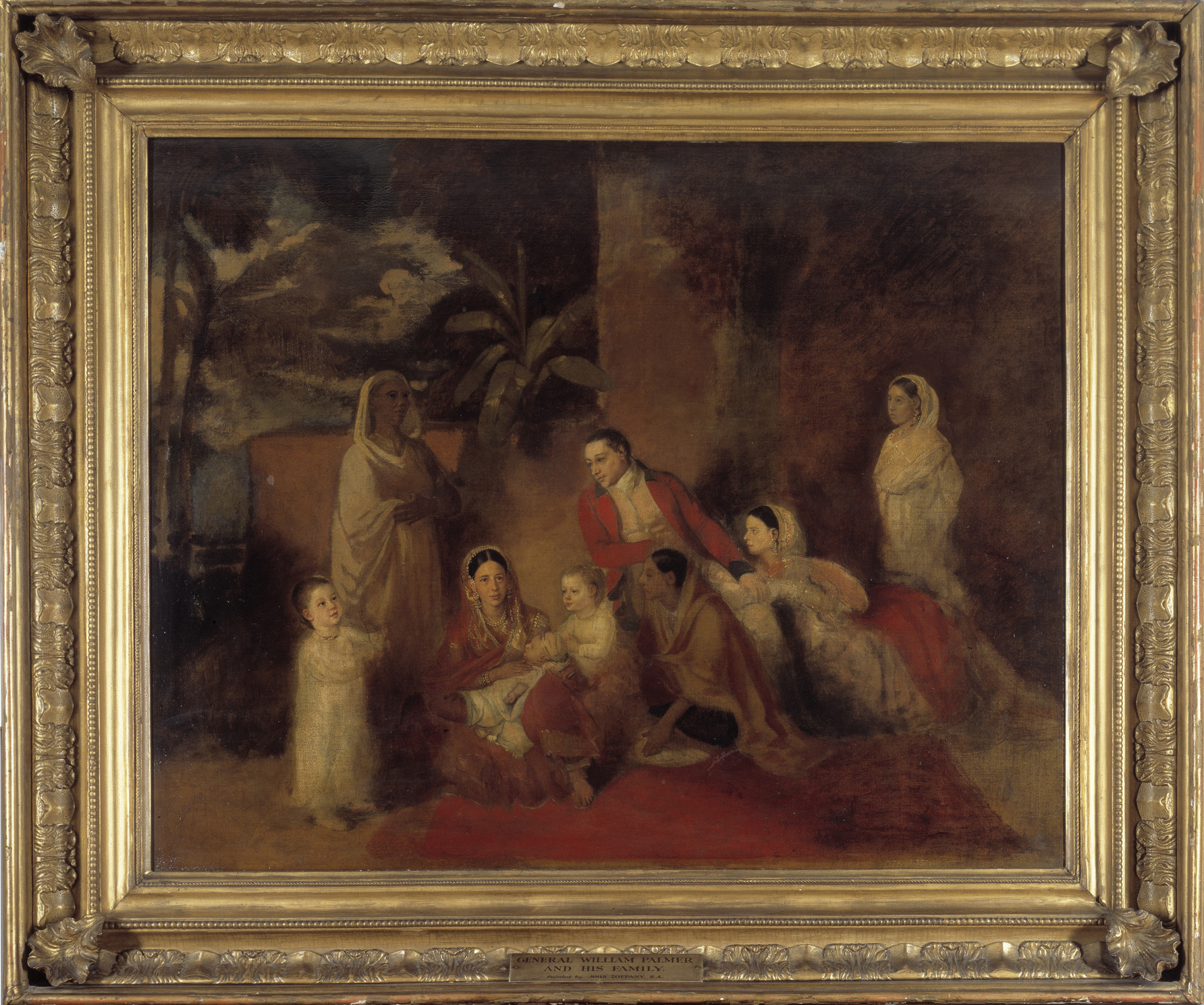 The Palmer Family Major William Palmer with his second wife, the Mughal princess Bibi Faiz Bakhsh on his right and her sister on his left. Three of his children and three female attendants complete the group. Oil on canvas.